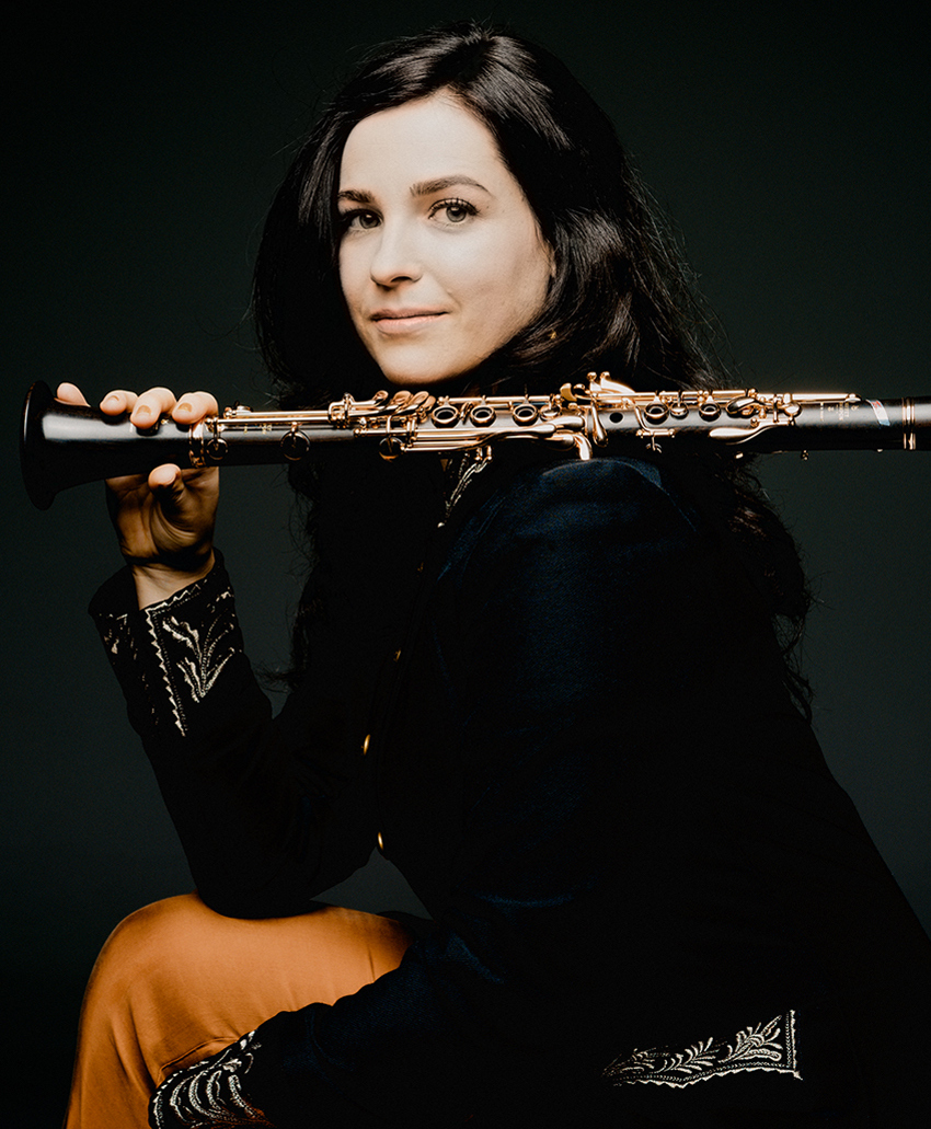 Annelien van Wauve, belgium clarinettist